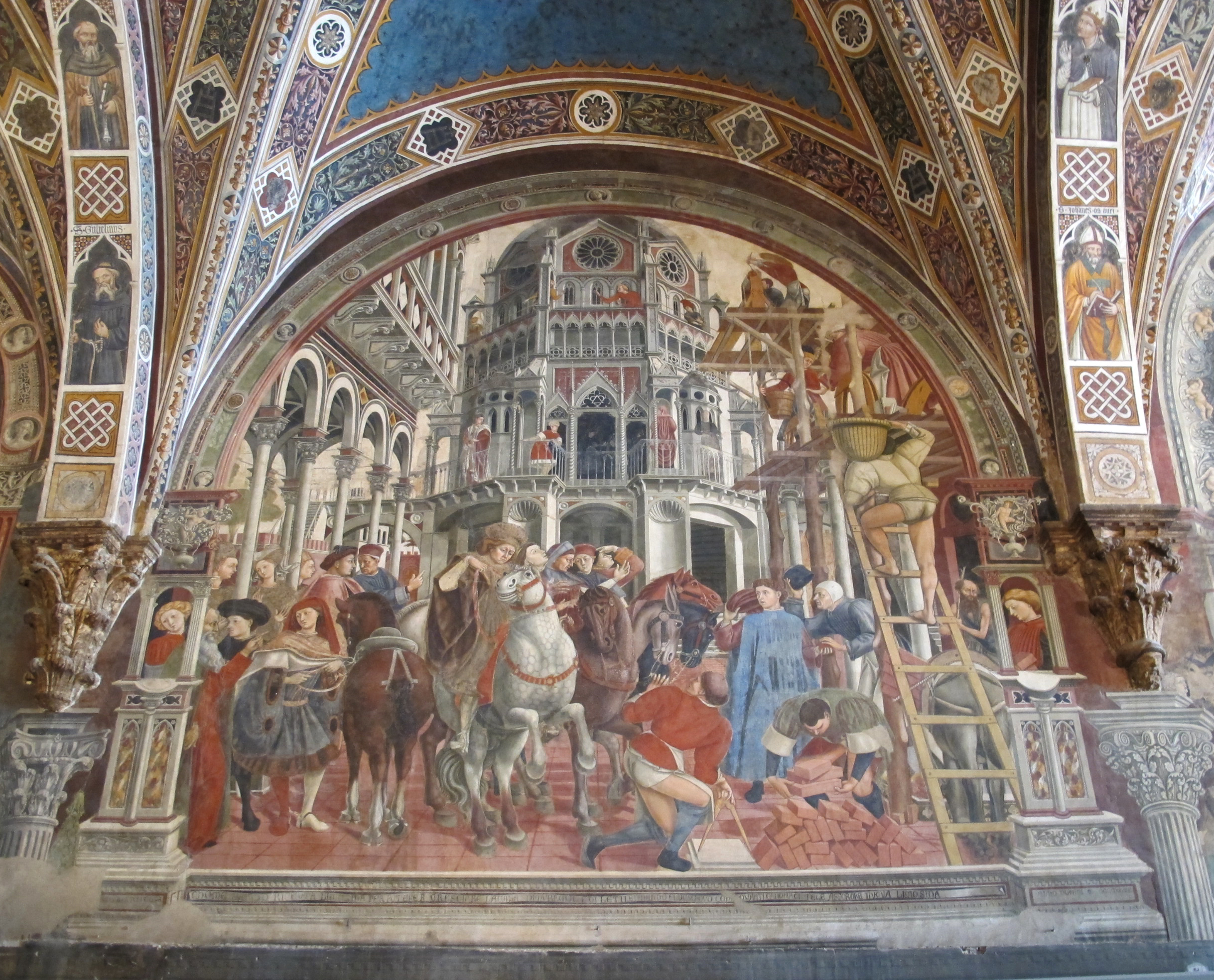 Pilgrims Lane in Santa Maria della Scala Hospital (Siena)